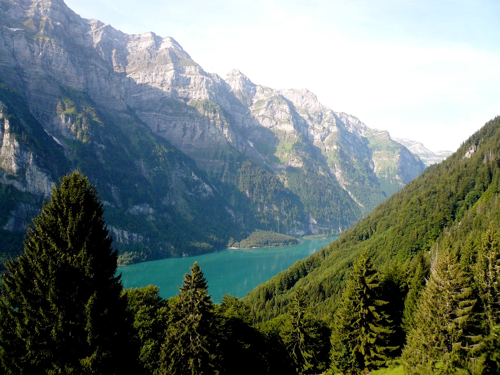 Klöntal